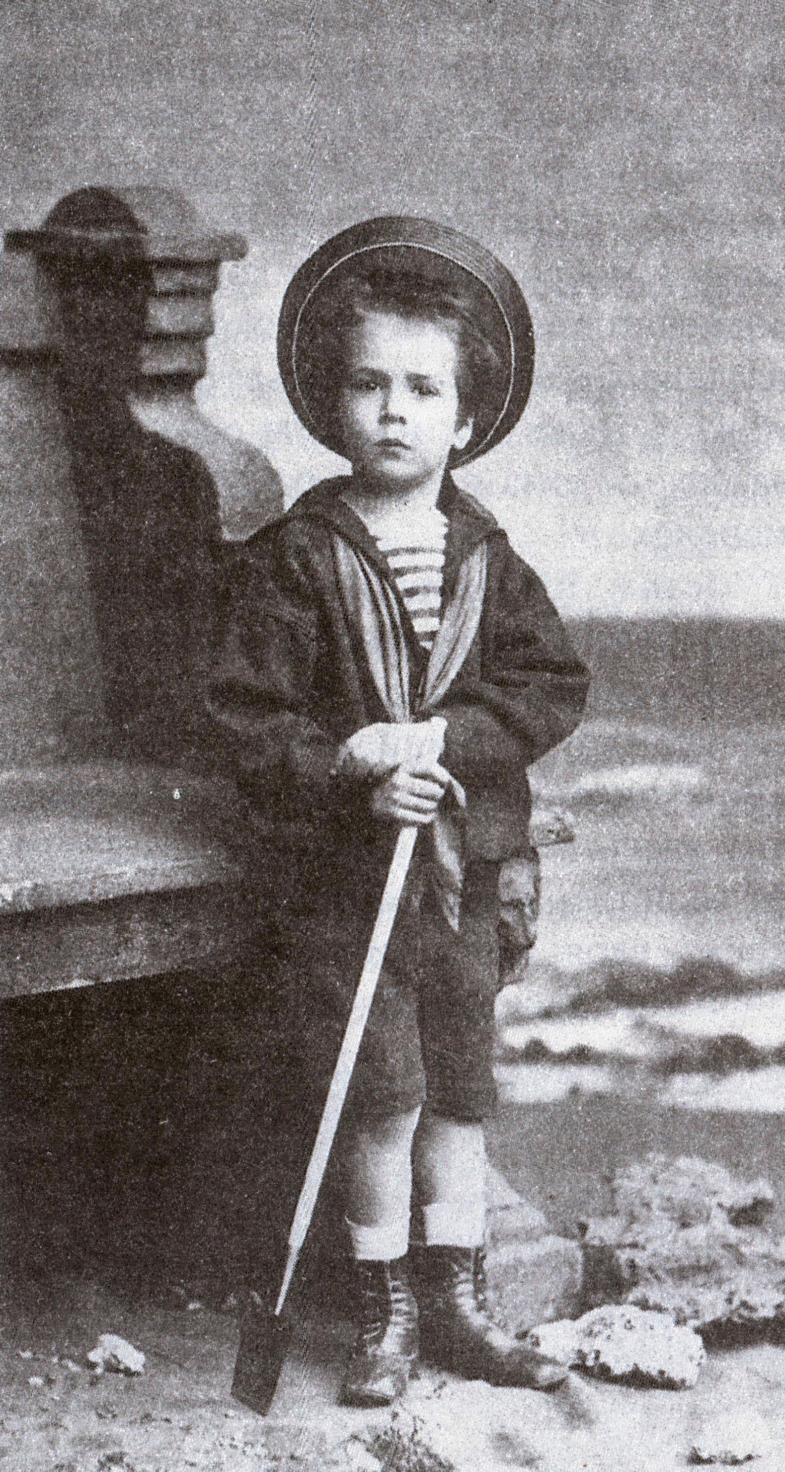 Nikolai Alexandrovich (later Emperor Nicholas II) at the age of five.